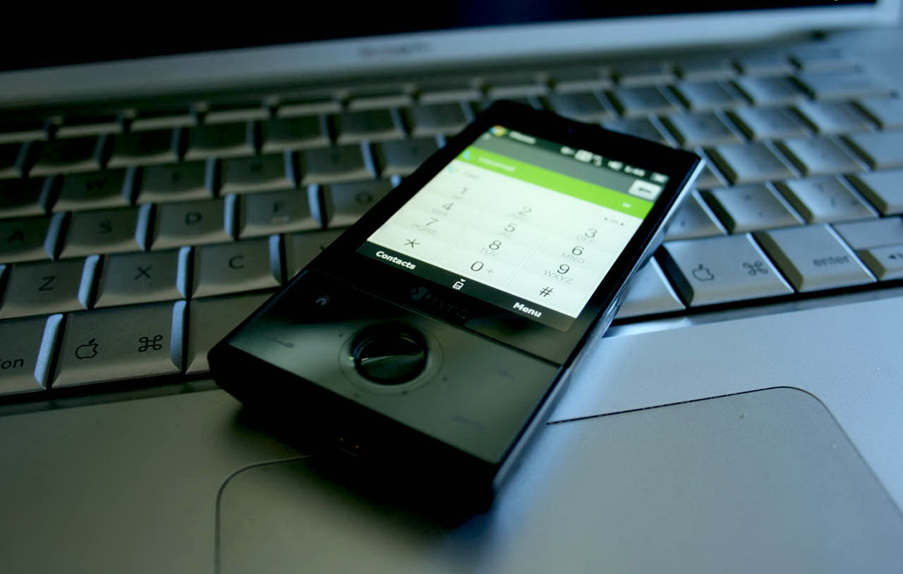 HTC Touch Diamond